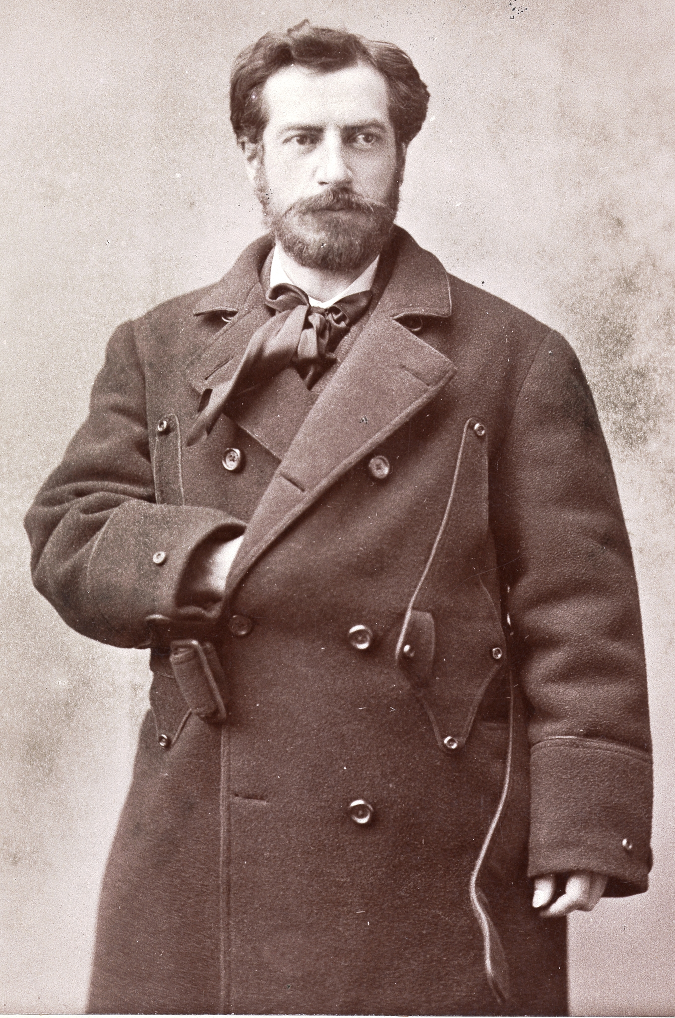 Frédéric Auguste Bartholdi, French sculptor and painter who designed the Statue of Liberty